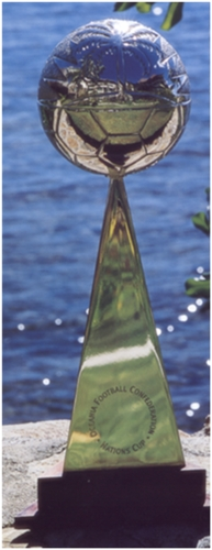 The OFC Nations Cup